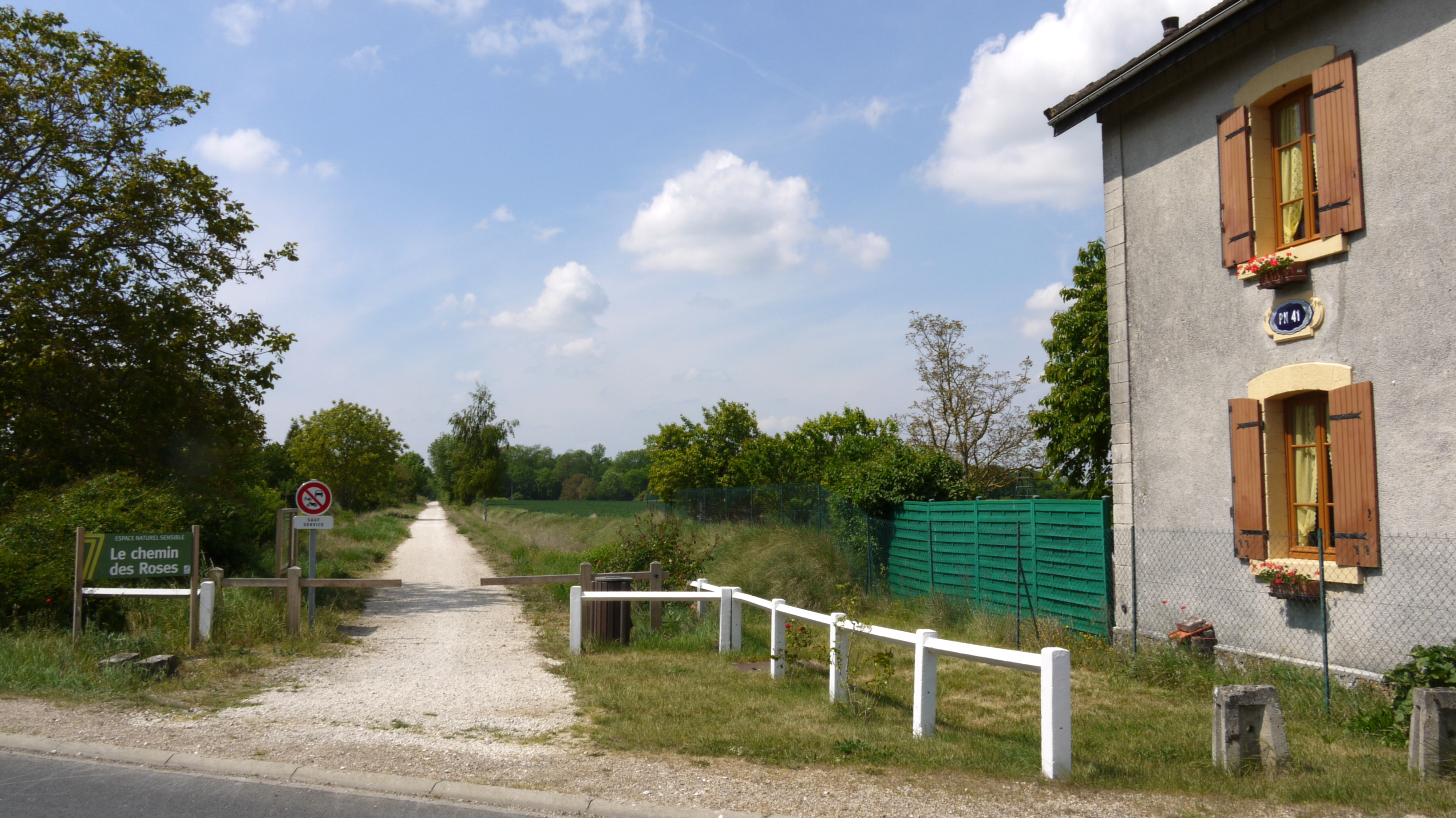 End of the bikeway "le chemin des Roses" at Yèbles (Seine et Marne, France)